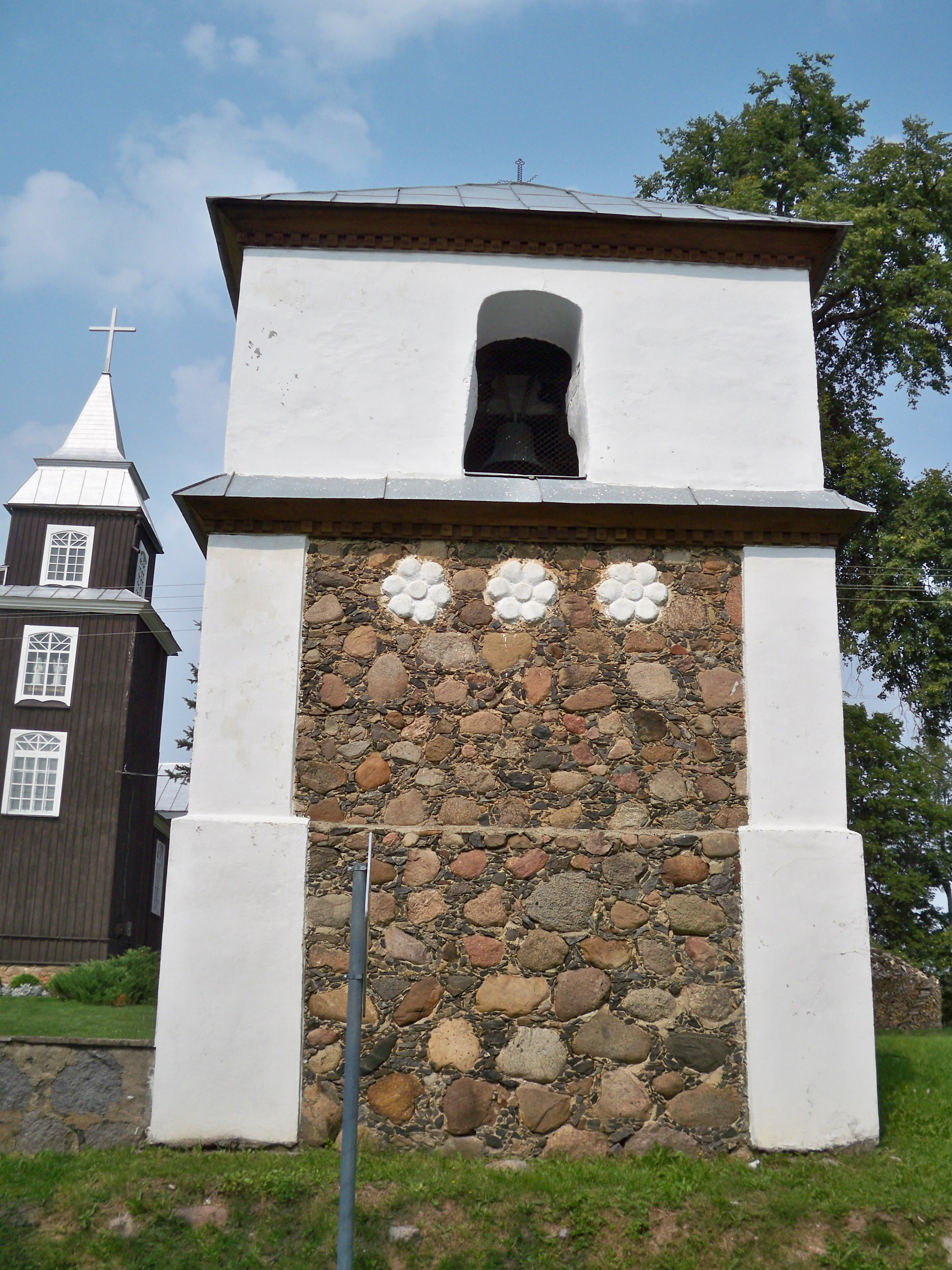 Antazavė bell tower.